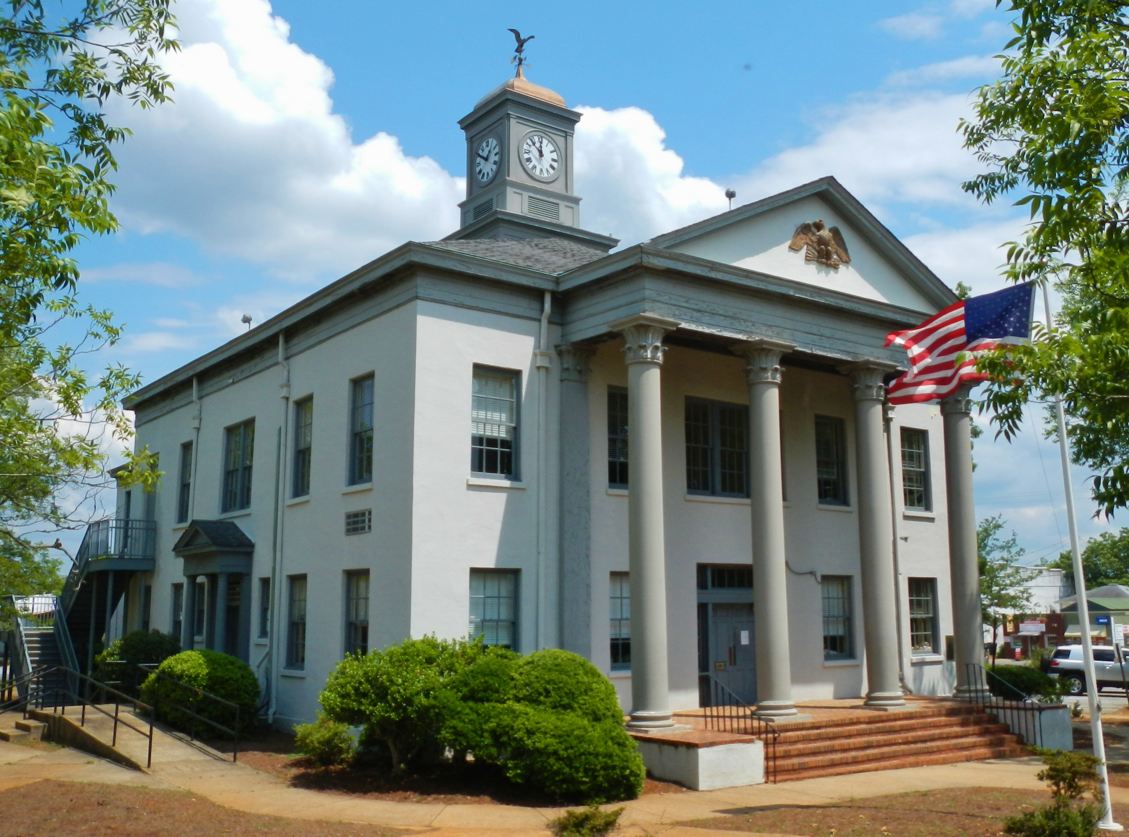 This is a photograph of the Marion County Courthouse in Buena Vista, GA.